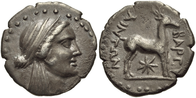 CARIA, Bargylia. 2nd-1st centuries BC. AR Drachm (14mm, 2.13 g, 11h). Veiled head of Artemis Kindyas right / Stag standing right; star below.